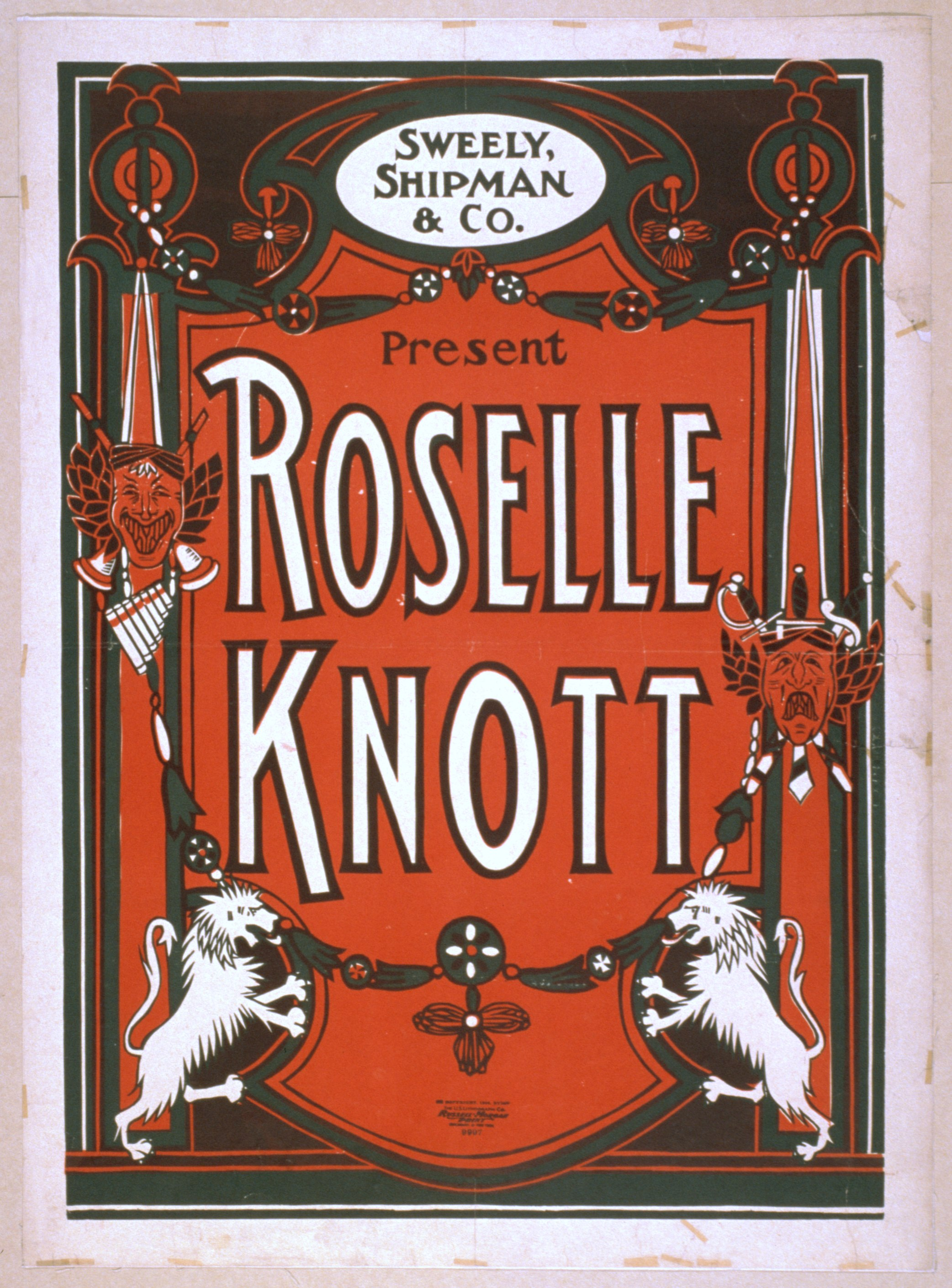 Title: Sweely, Shipman & Co. present Roselle Knott Abstract/medium: 1 print : color lithograph ; sheet 72 x 53 cm. (poster format)